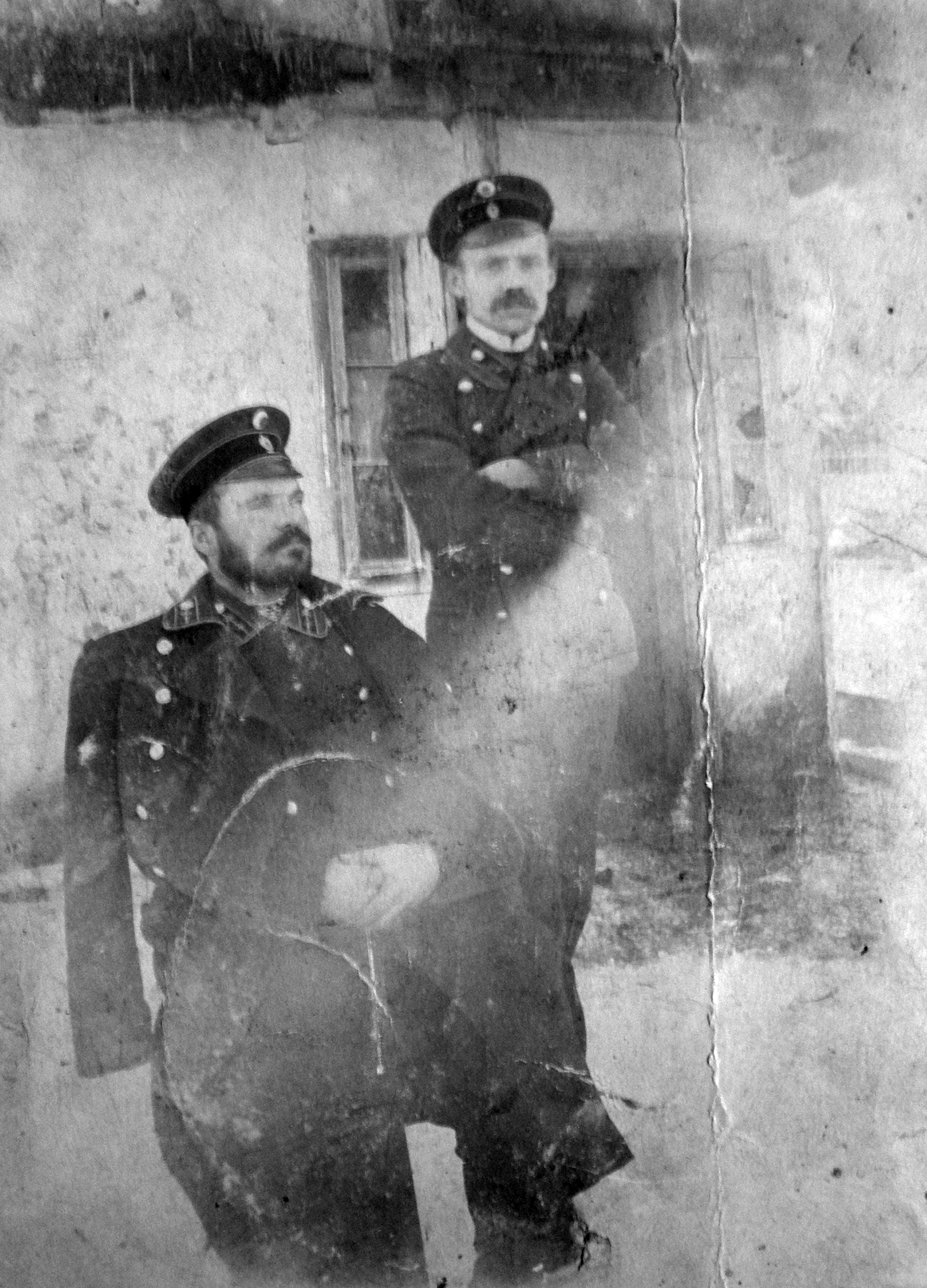 Borzna Post office, 1916